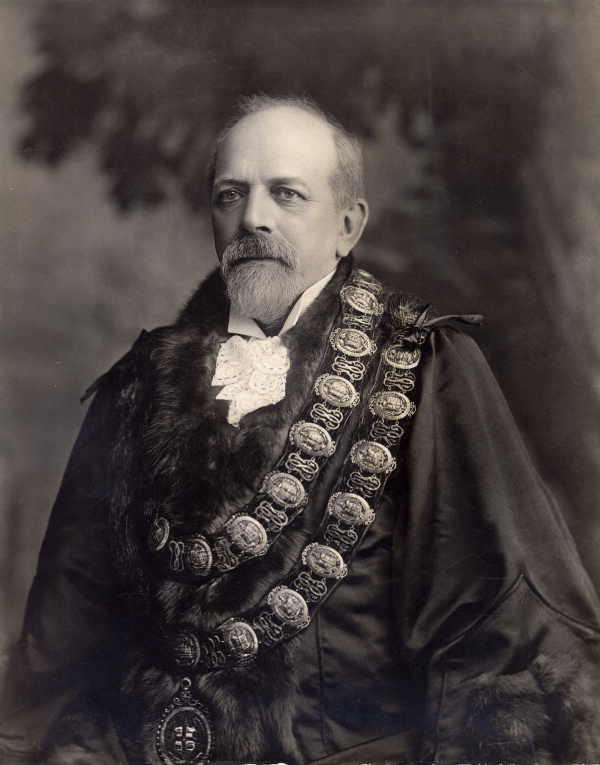 Portrait of Sir Samuel Gillott